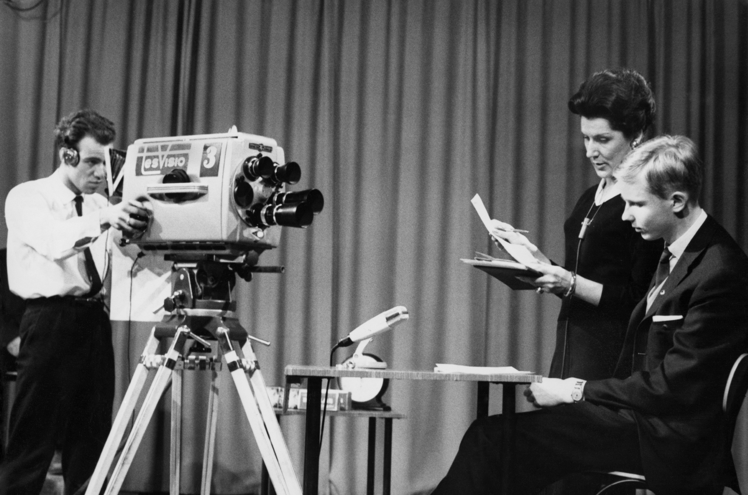 Tesvisio, 1957-1965, the first television channel in Finland. Game show under way. Cameraman Pehr Snellman, presenter Mrs Kirsti Rautiainen and competitor, young Erkki Tuomioja. The 16-year-old Erkki Tuomioja won the game in 1963. Mr Tuomioja later became a prominent politician and minister. Finnish Broadcasting Company bought Tamvisio in 1964 and Tesvisio in 1965 and together the channels merged as Yle TV2. Tesvisio. "Tupla tai kuitti" -tietokilpailu.